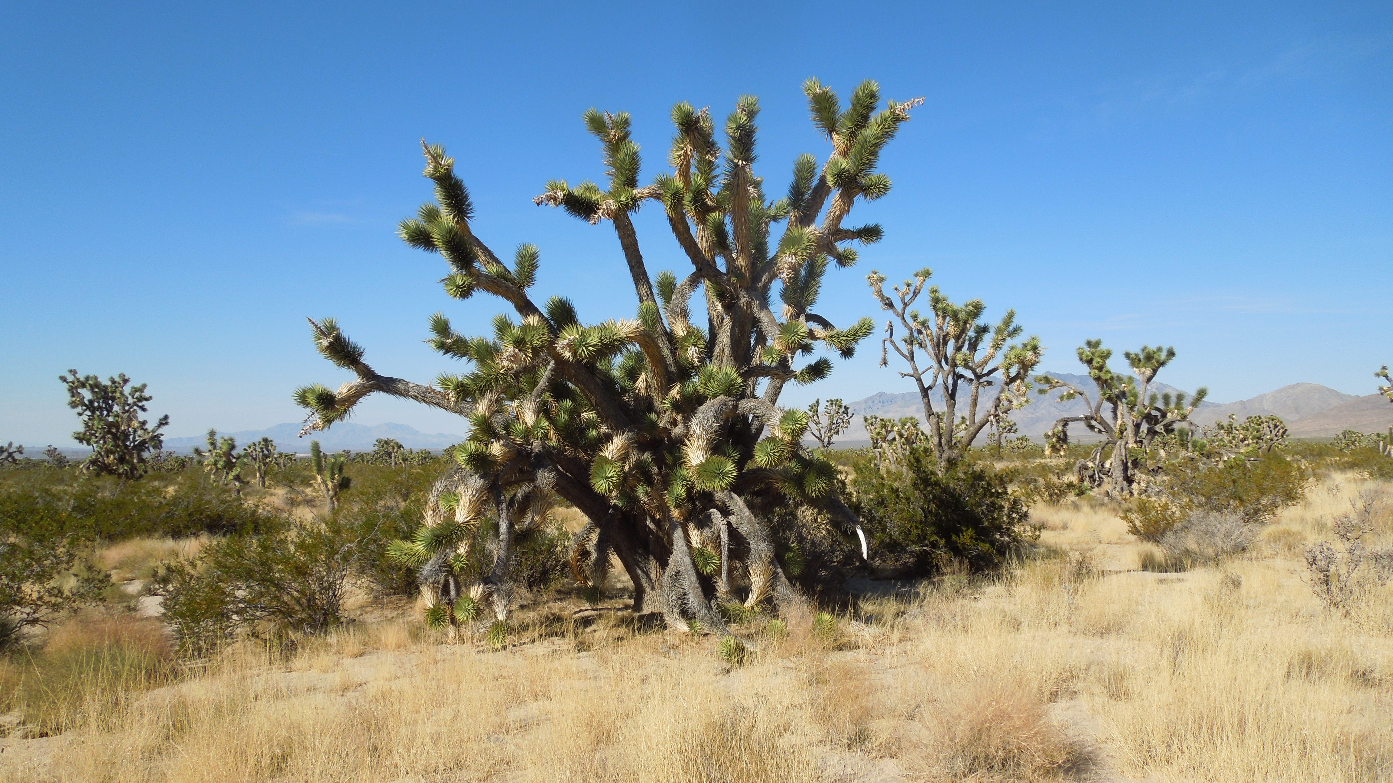 Joshua Tree and forest along Cima road in the Mojave National Preserve.